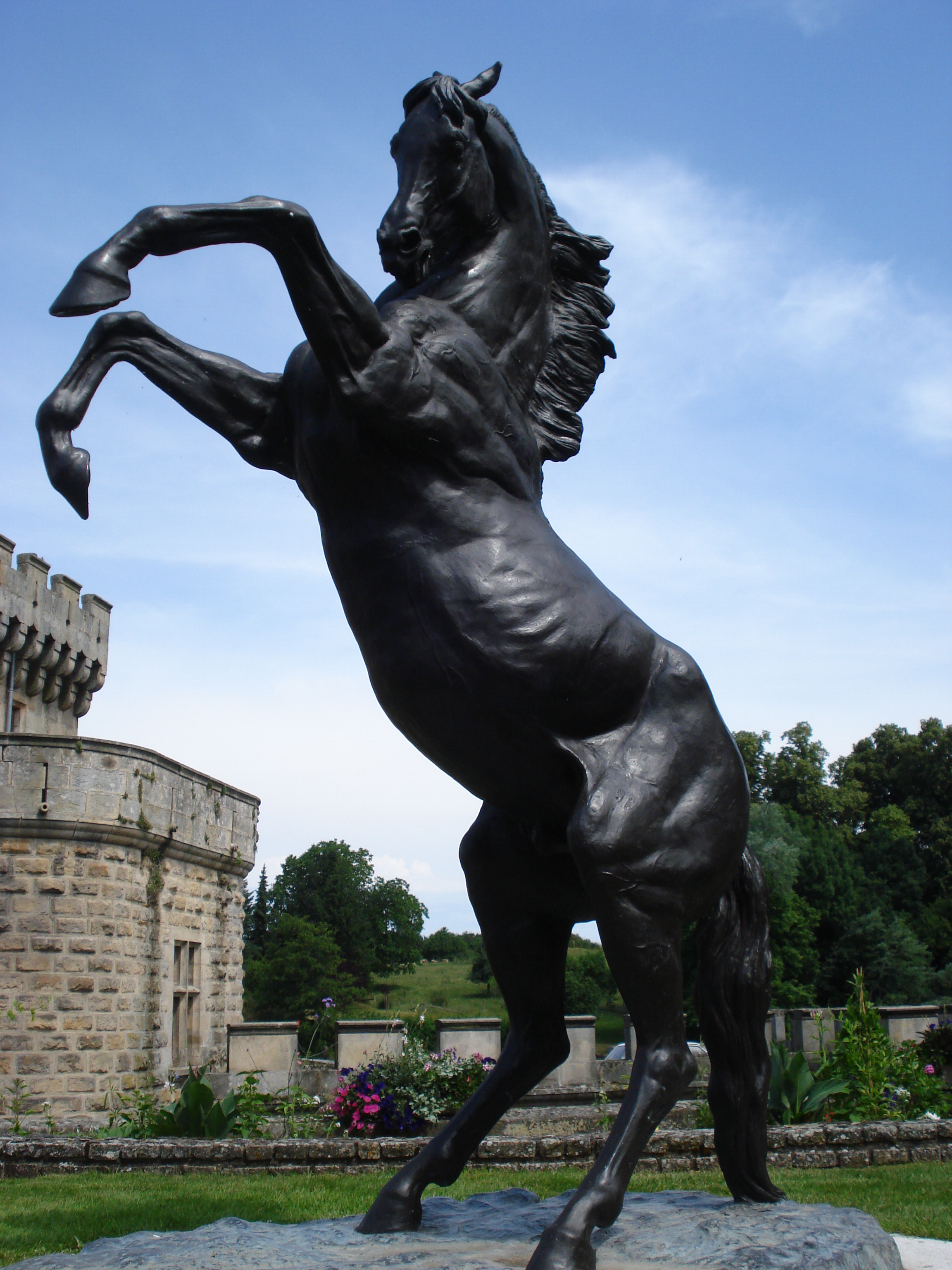 La Clayette (Saône-et-Loire, Fr), statue of horse.